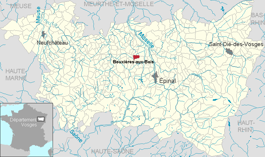 Bouxières-aux-Bois in the department of Vosges, Lorraine, France